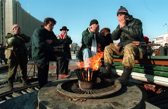 Chechen fighters, supporters of President Dudayev, pray next to an eternal flame in front of the Presidential Palace in Grozny, December 1994.